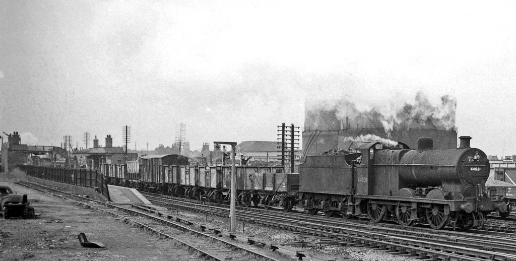 Down freight passing Kirkby-in-Ashfield East Station. View southward, towards Nottingham and Pye Bridge; ex-Midland Nottingham - Mansfield - Worksop line, junction of line from Pye Bridge. This station was closed on 6/9/65 and although the ex-Midland Nottingham - Mansfield - Worksop route was revived in the 1990s as the Robin Hood Line, through Kirkby this followed the alignment of the parallel ex-Great Northern (Leen Valley) line and the new Kirkby Station (opened on 17/11/96) was built on that alignment. The locomotive here heading a Down Class H freight is LMS 4F 0-6-0 No. 44531.